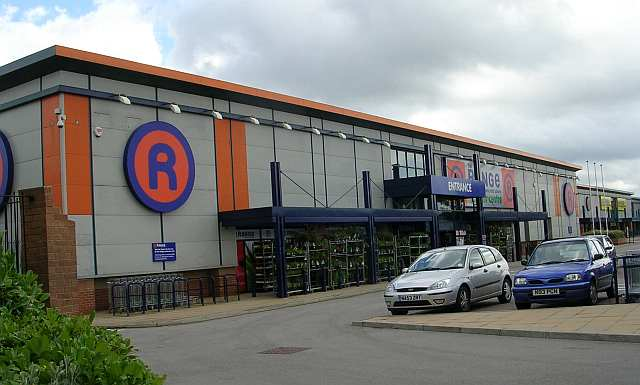 The Range - Tulip Retail Park